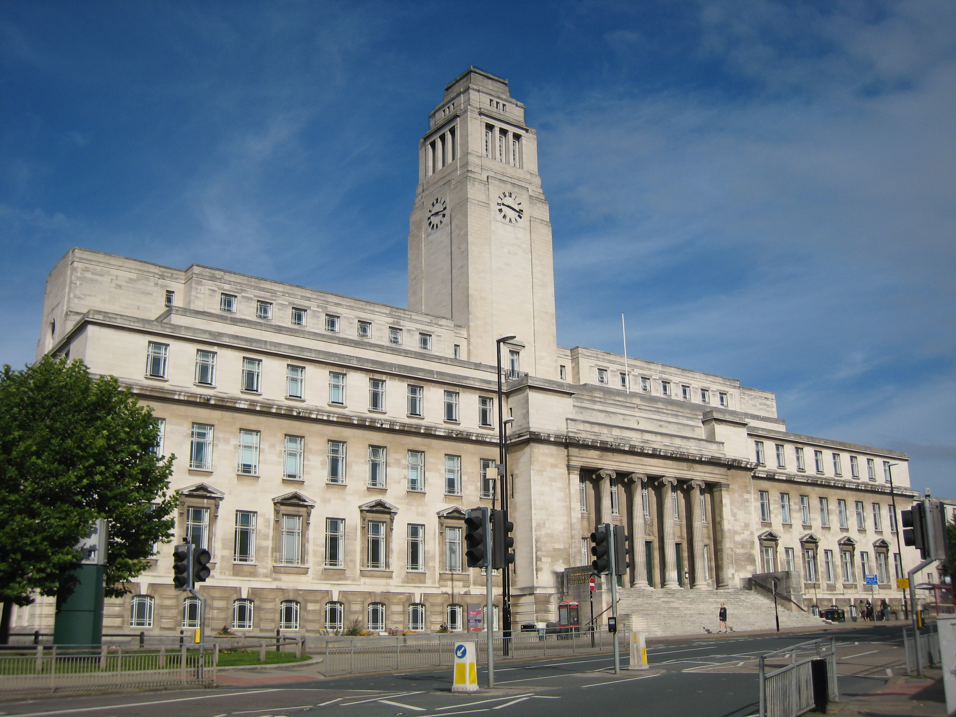 Parkinson Building, University of Leeds, Woodhouse Lane LS1.